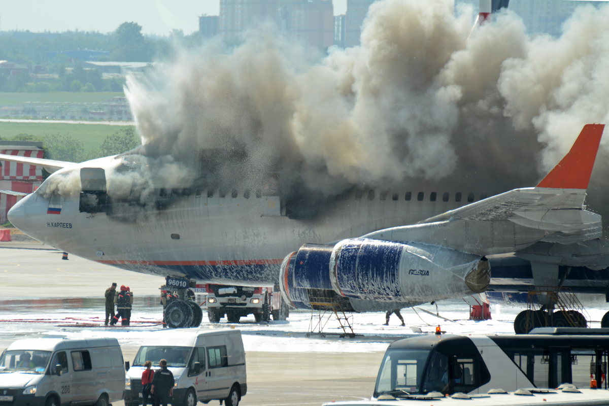 Ex-Aeroflot Ilyushin Il-96-300 (RA-96010) on fire at Sheremetyevo International Airport